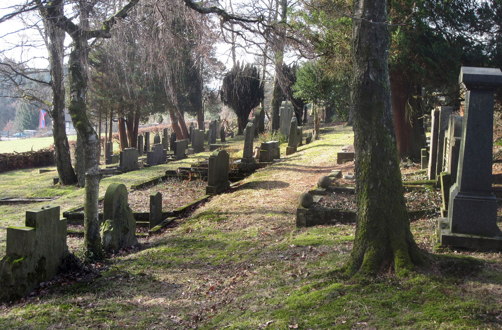 Jewish cemetery Schwelm